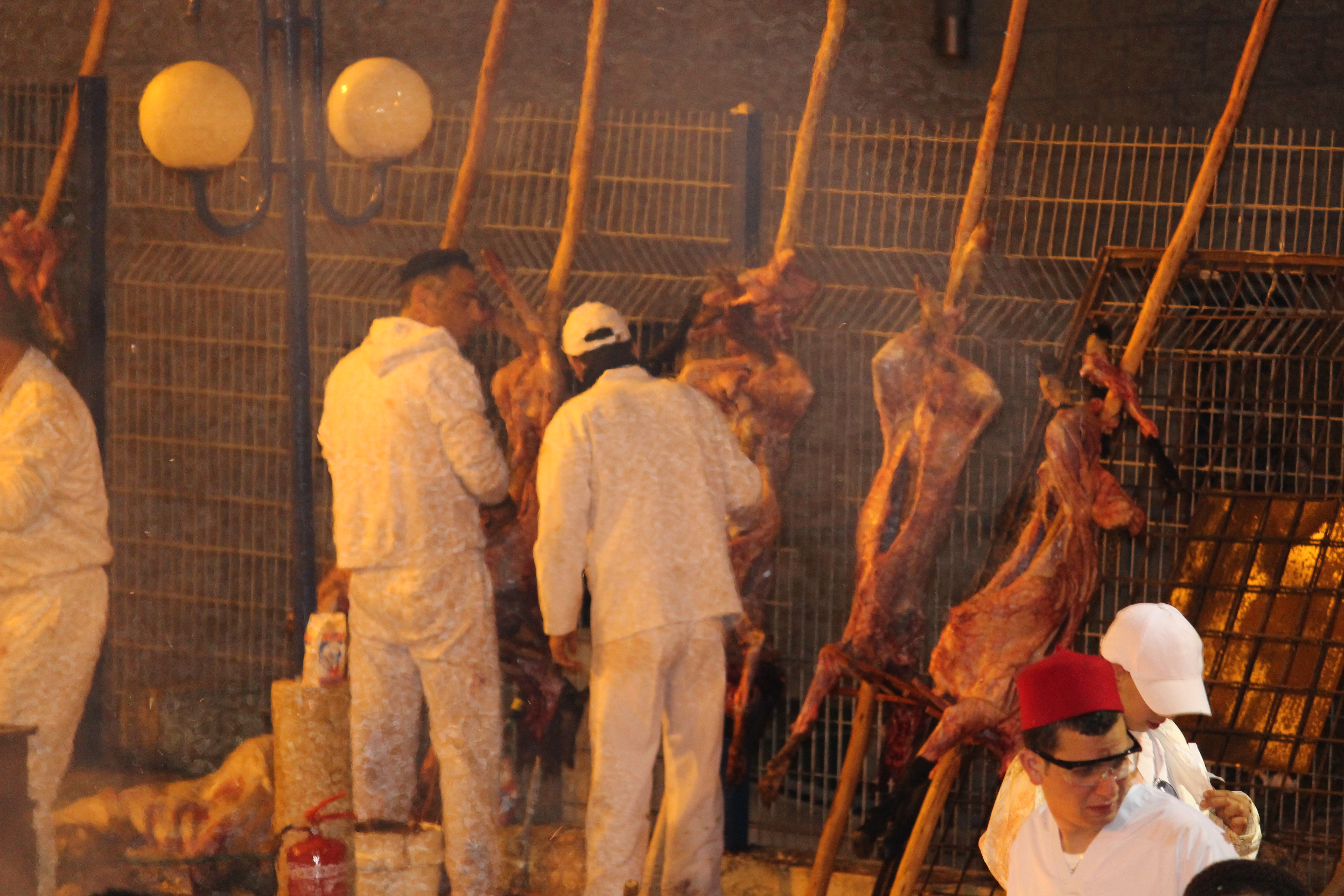 The Samaritan Passover sacrifice (Korban Pesach) - Mount Gerizim